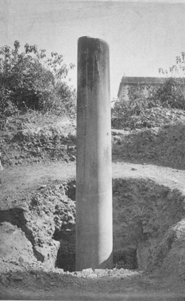 Stone pillar erected by Indian emperor Ashoka at Lumbini, Nepal marking the birthplace of the Buddha, in 1896.